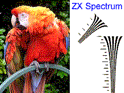 A rendering of Image:Parrot.red.macaw.1.arp.750pix.jpg on the ZX Spectrum "3colour / Multichrome / RGB-3", 256×192 attributes display.